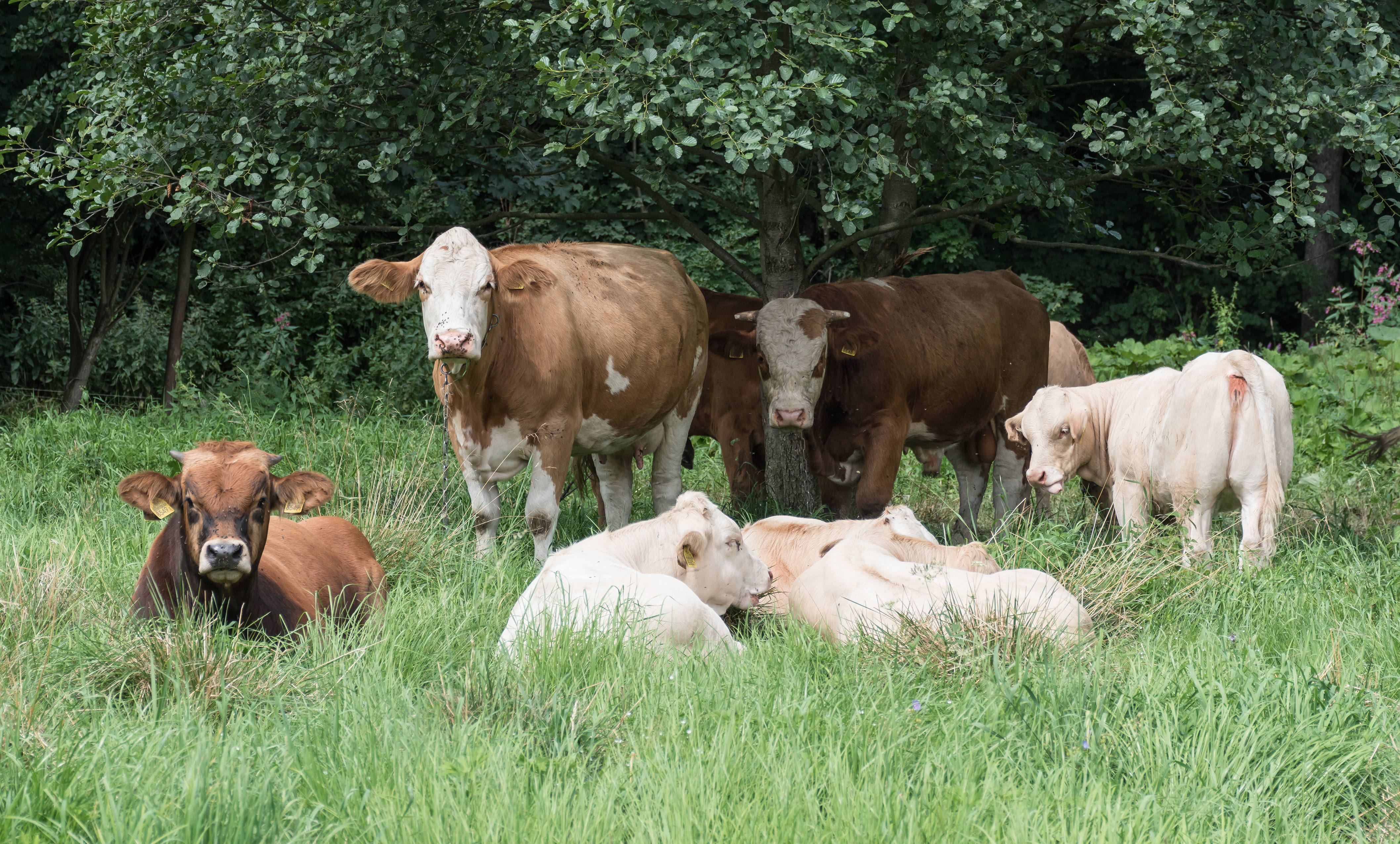 Cows on pasture in Nagodzice